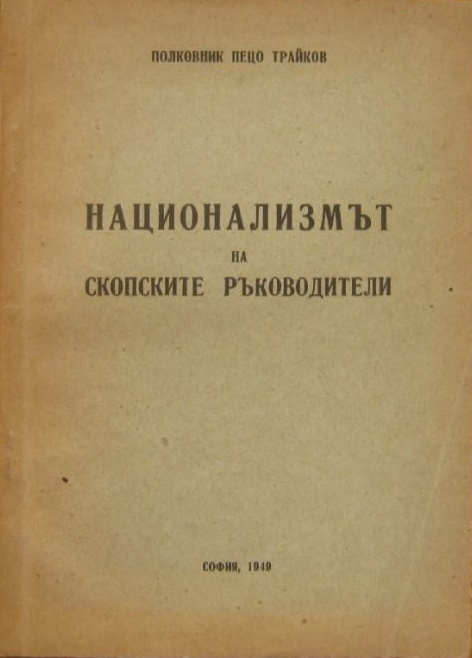 The_Nationalism_of_Skopje_Leaders